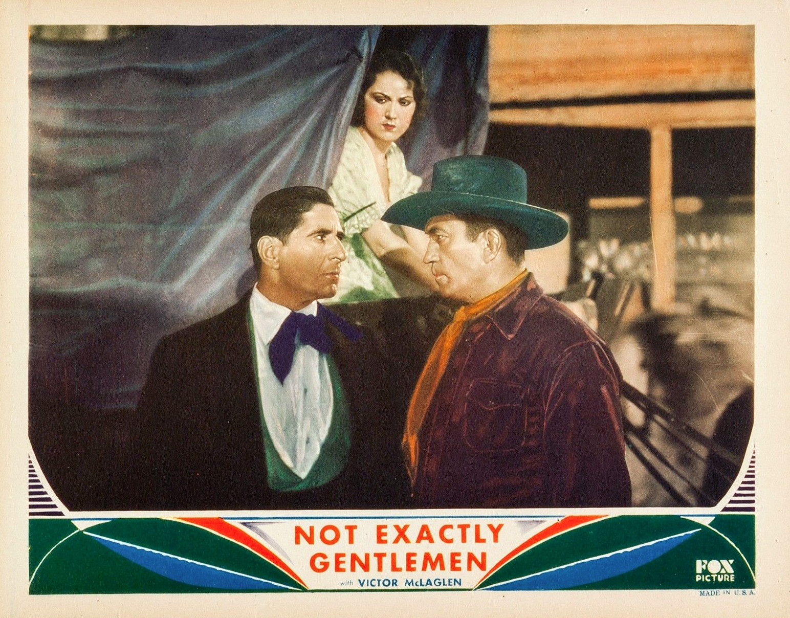 Lobby card from the 1931 film Not Exactly Gentlemen. The film was also known as Three Rogues.